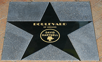 David Hartnell's Star at the Boulevard of Dreams, Orewa New Zealand